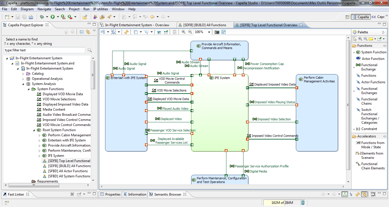 Capella System Functional Dataflow Blank diagram example